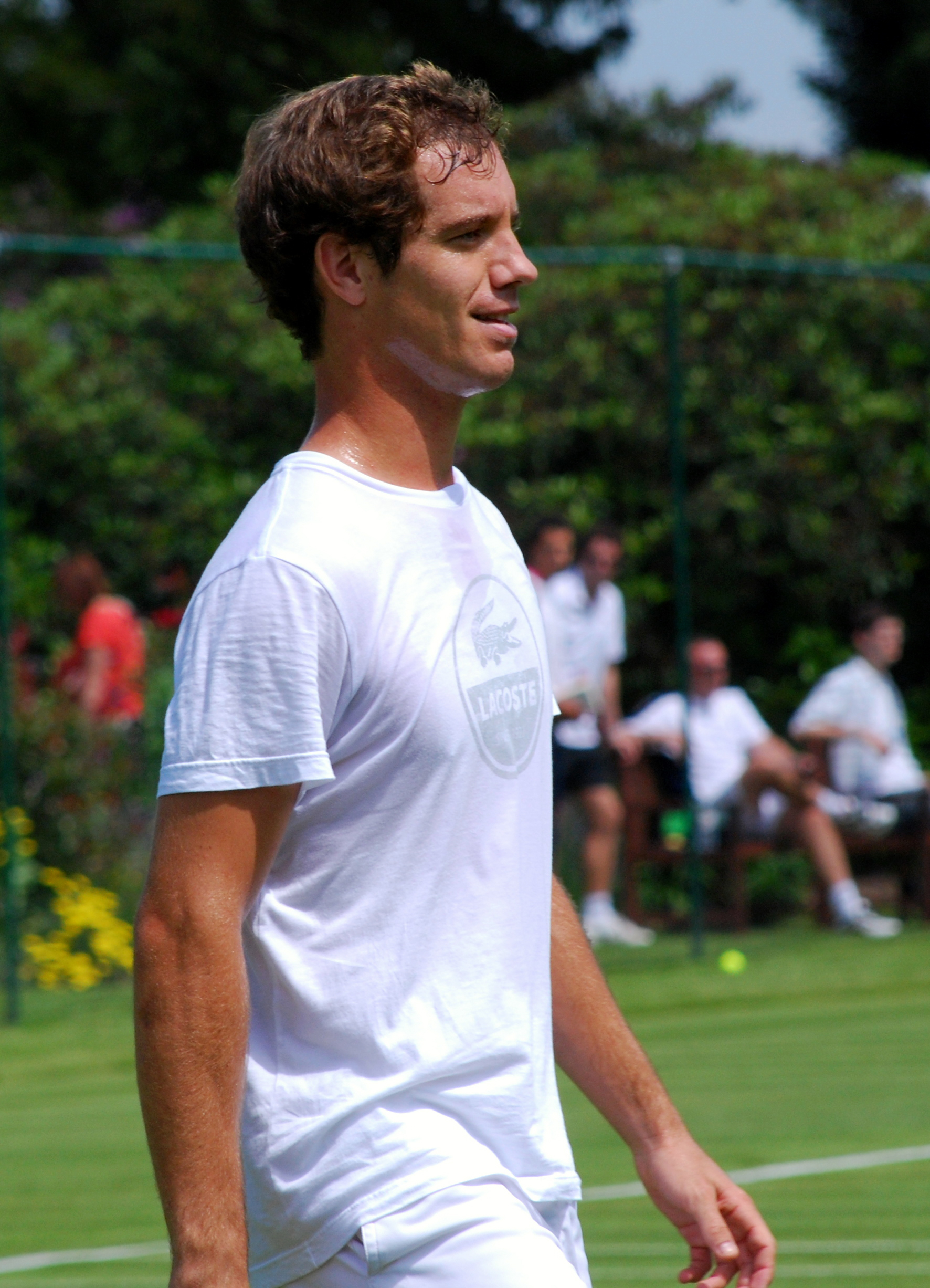 The Boodles, Stoke Park, 2011.